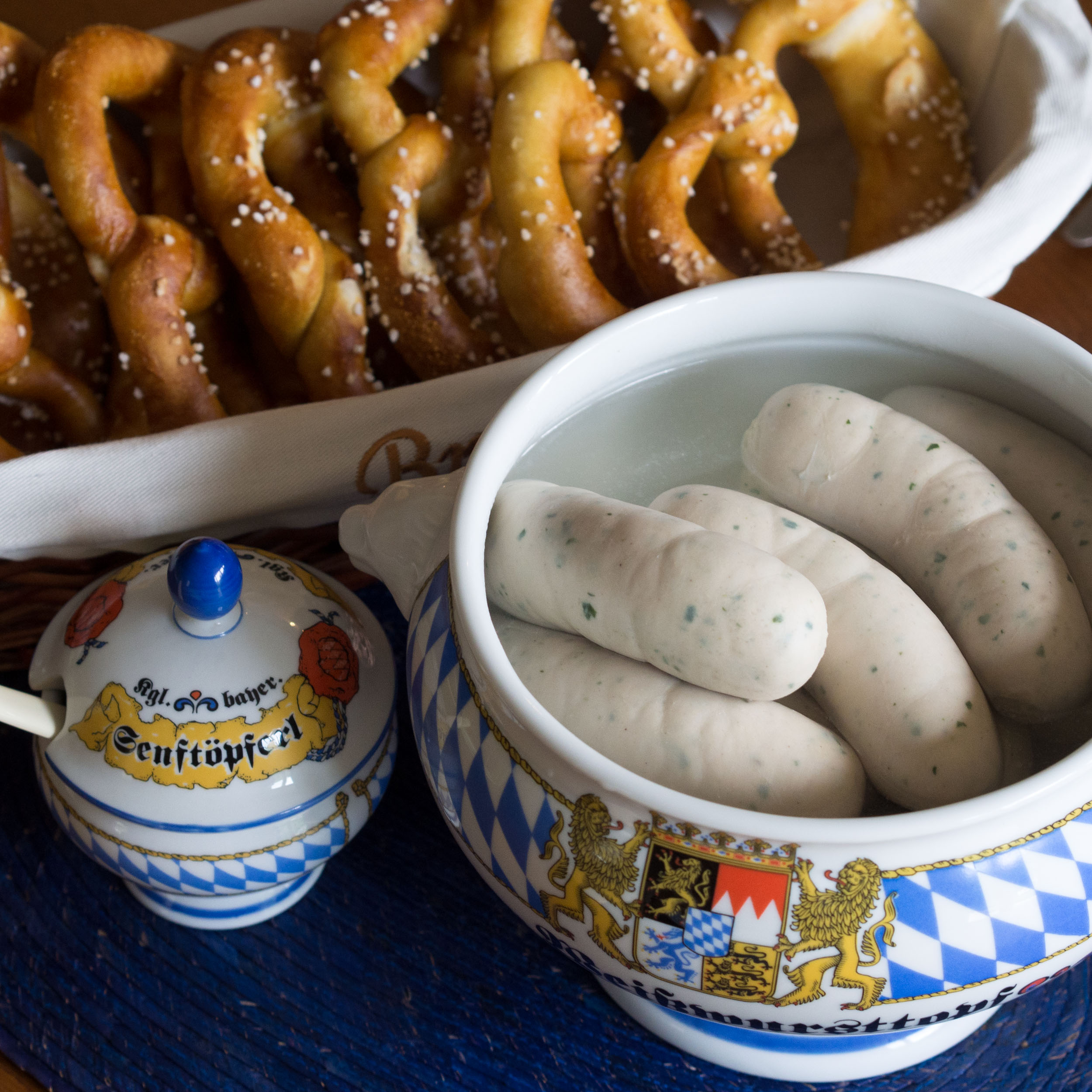 "Weißwurst" (meaning "white sausage"), "Brezn" (meaning "pretzel") und "Süßer Senf" (meaning "sweet mustard") served in china with the Bavarian coat of arms.